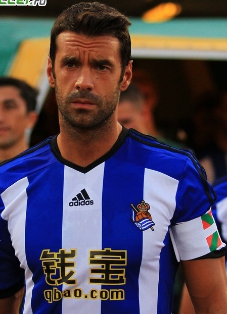 Xabi Prieto